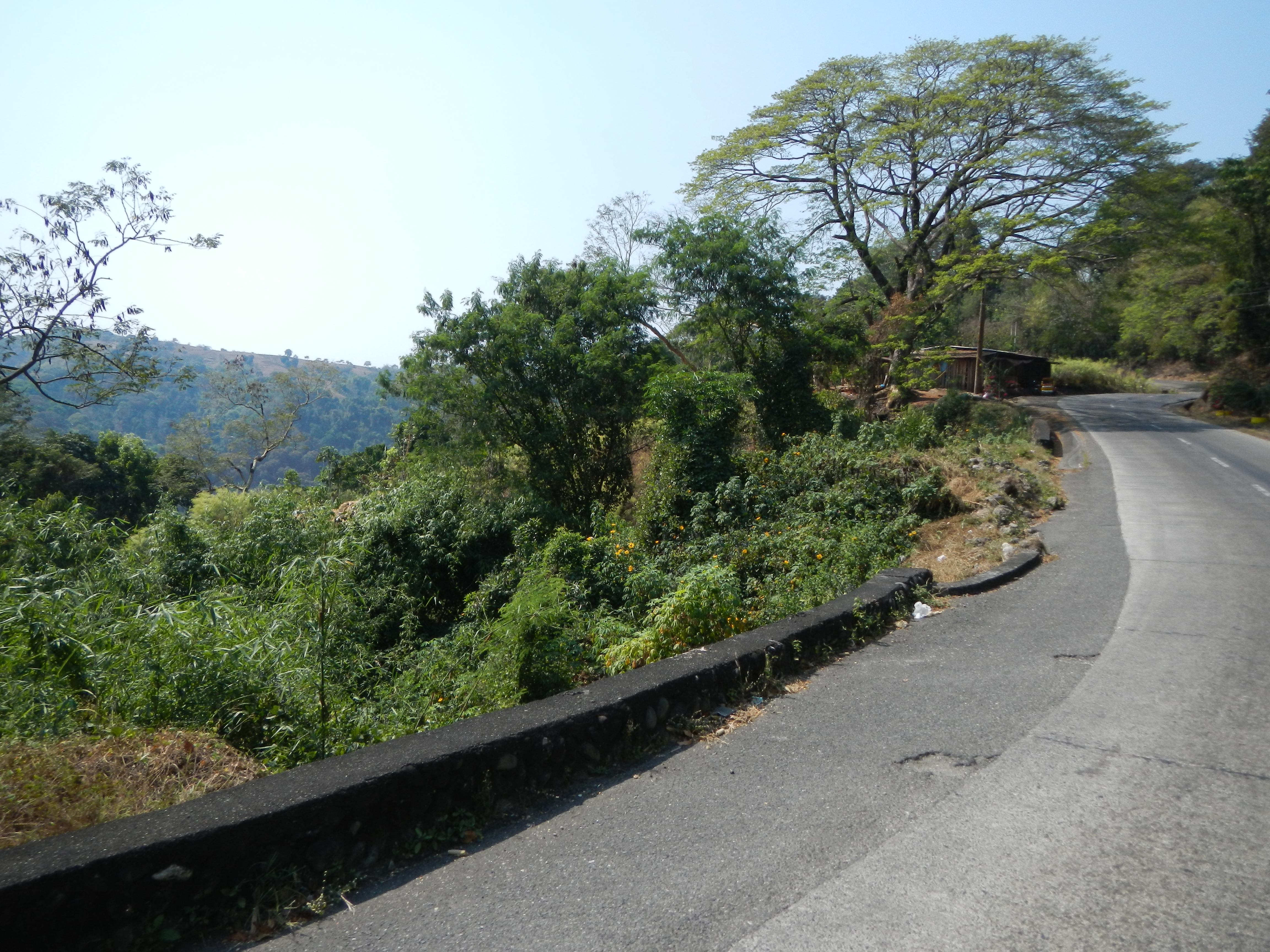 Naguilian Road Burgos, La Union (from the Welcome Arch to Barangay Caoayan, Municipal Cemetery, to Barangay Dalacdac, Poblacion, amazing scenery, picturesque mountain ranges along the Bauang-Baguio or Naguilian Road going to the Town Proper where the Town Hall Complex stands still).